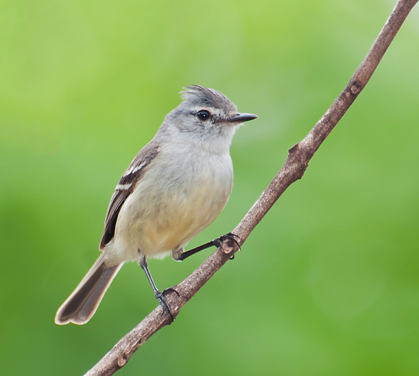 A White-crested Tyrannulet in Piraju, São Paulo, Brazil.